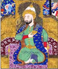 Painting of Afrasiyab in The Shahnama of Shah Tahmasp